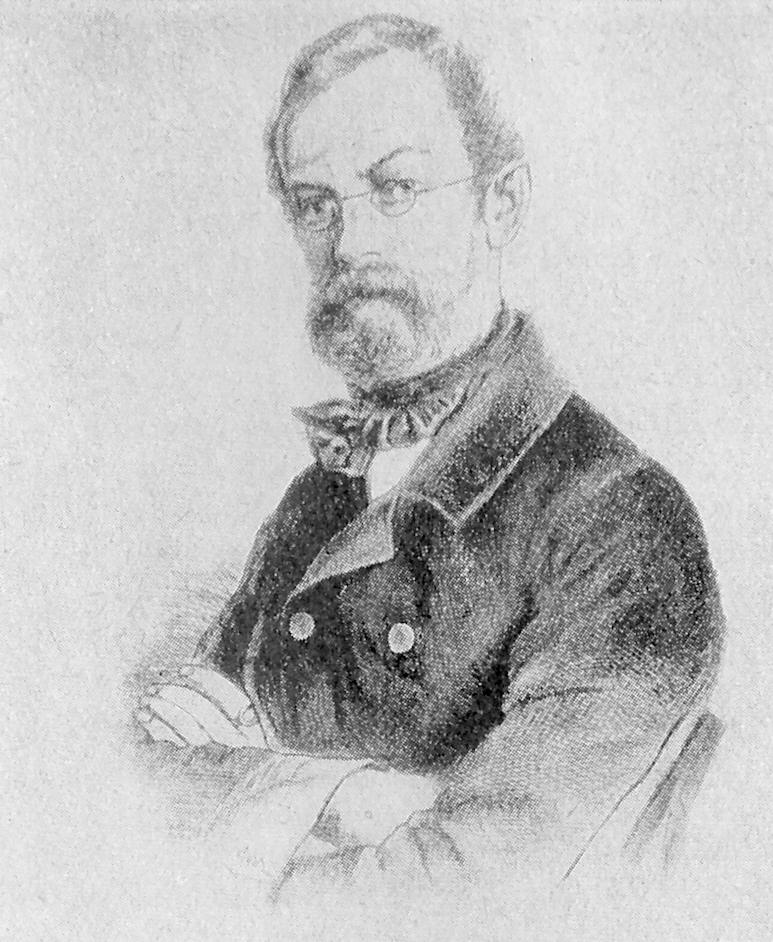 Emil Adolf Roßmäßler (1806-1867), German botanist, forestry scientist an politician.